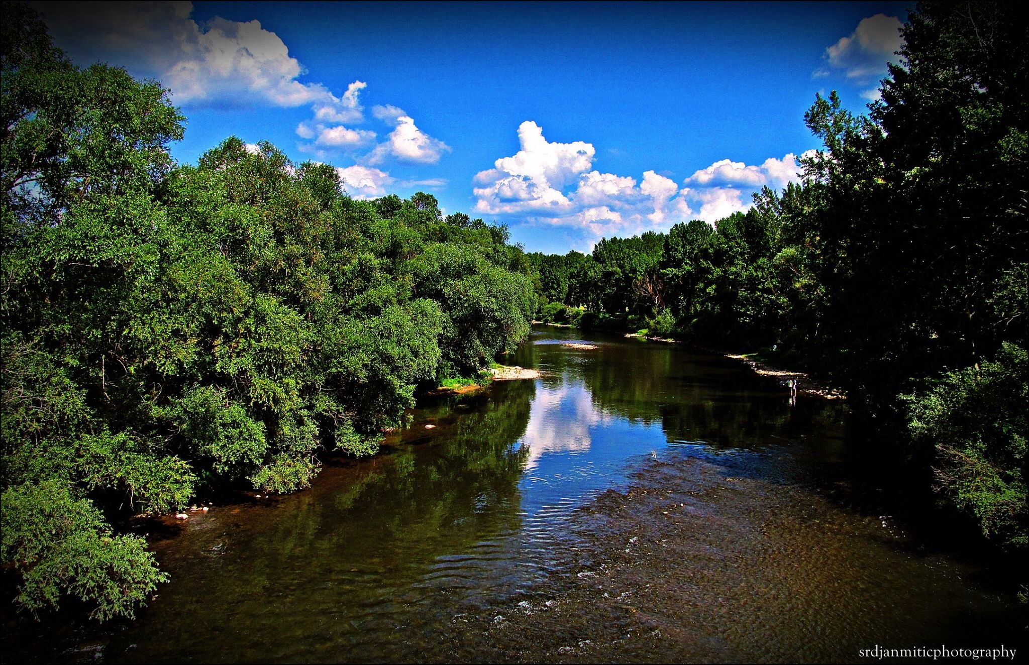 River Nisava, Serbia july 2014.